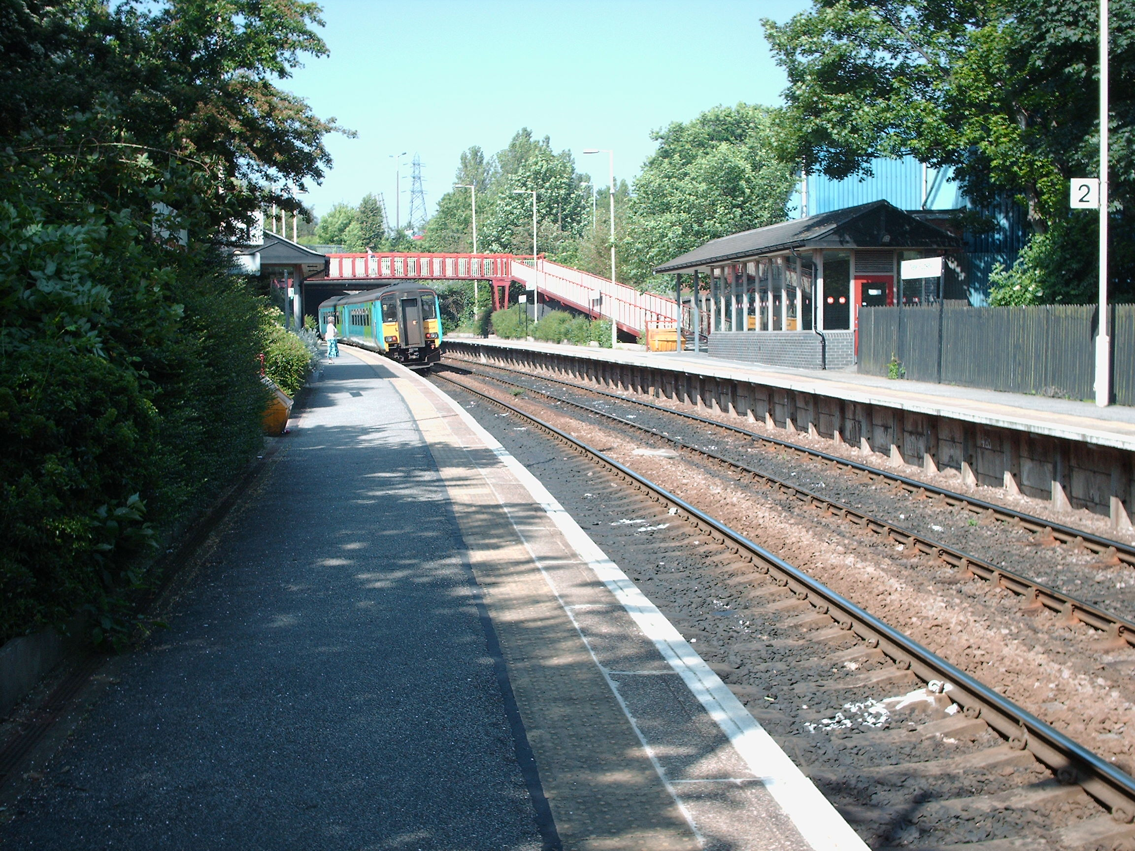 New Pudsey railway station, West Yorkshire, England. Diesel Multiple Unit 156498 stands at platform 1.